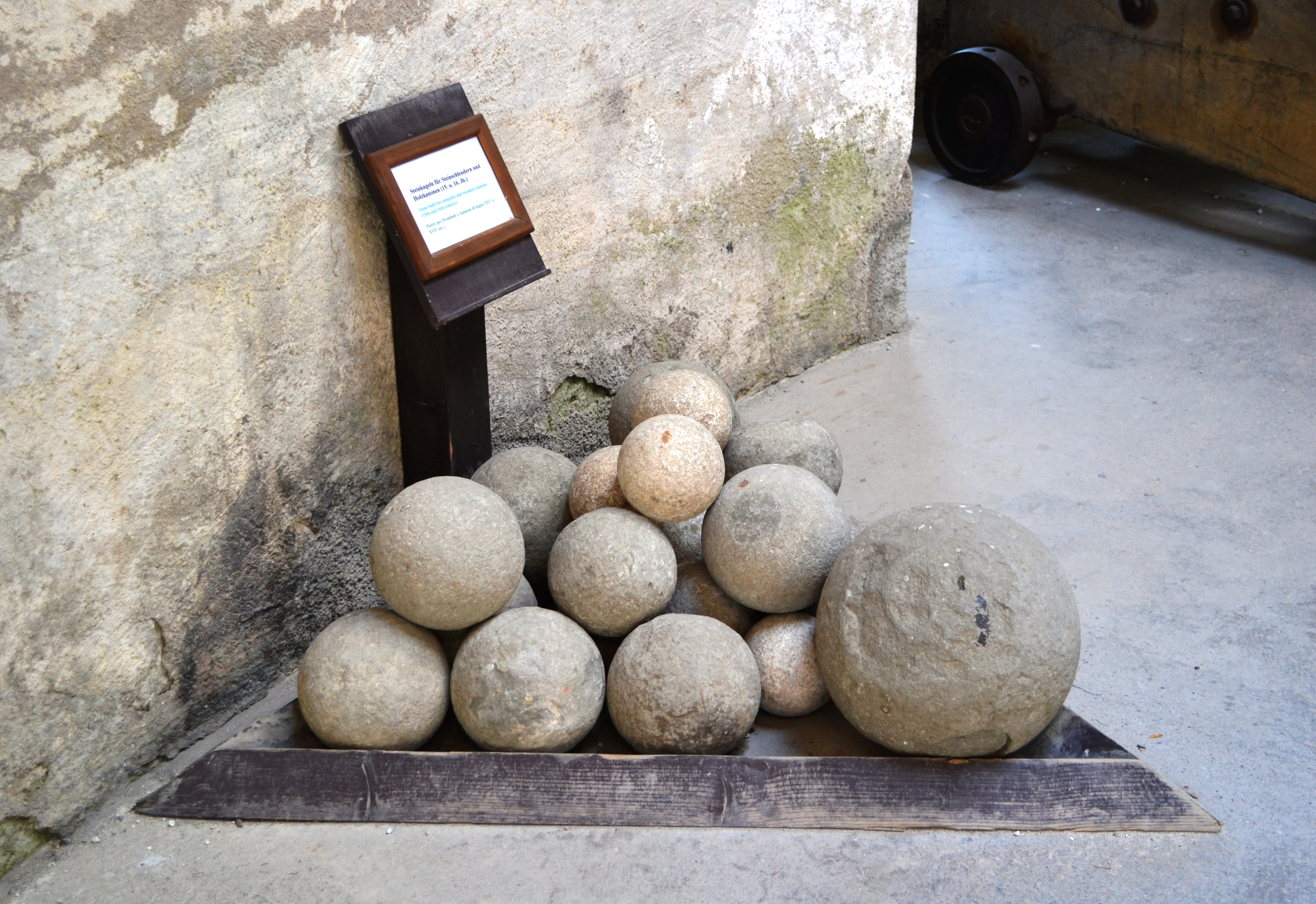 Stone balls for catapults and wooden canons (15th and 16th century).